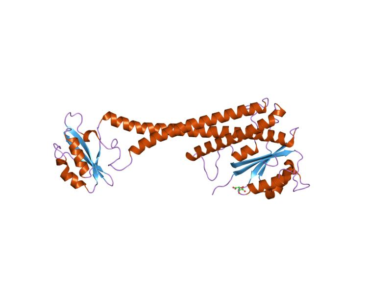 Cartoon representation of the molecular structure of protein registered with 1u7l code.